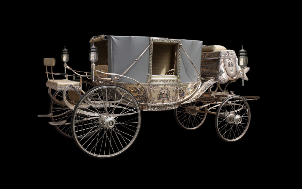 Enamelled chariot belonging to the Indian Maharaja of Bhavnagar. From the Nasser D. Khalili Collection of Enamels of the World